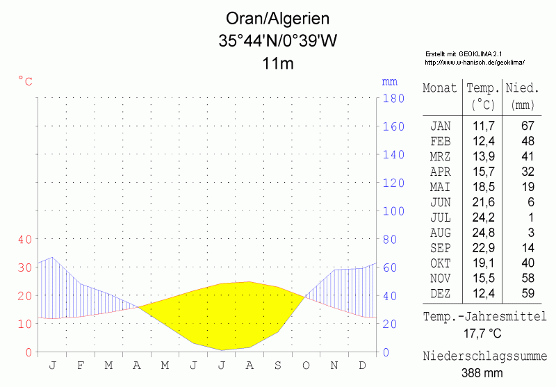 climate chart in the format by Walther and Lieth